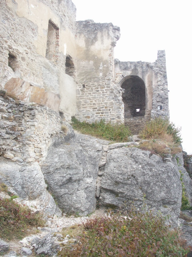 Ruin of Dürnstein in the Wachau, a landscape of high visual quality formed by the Danube river in Lower Austria / Austria / Middle Europe.